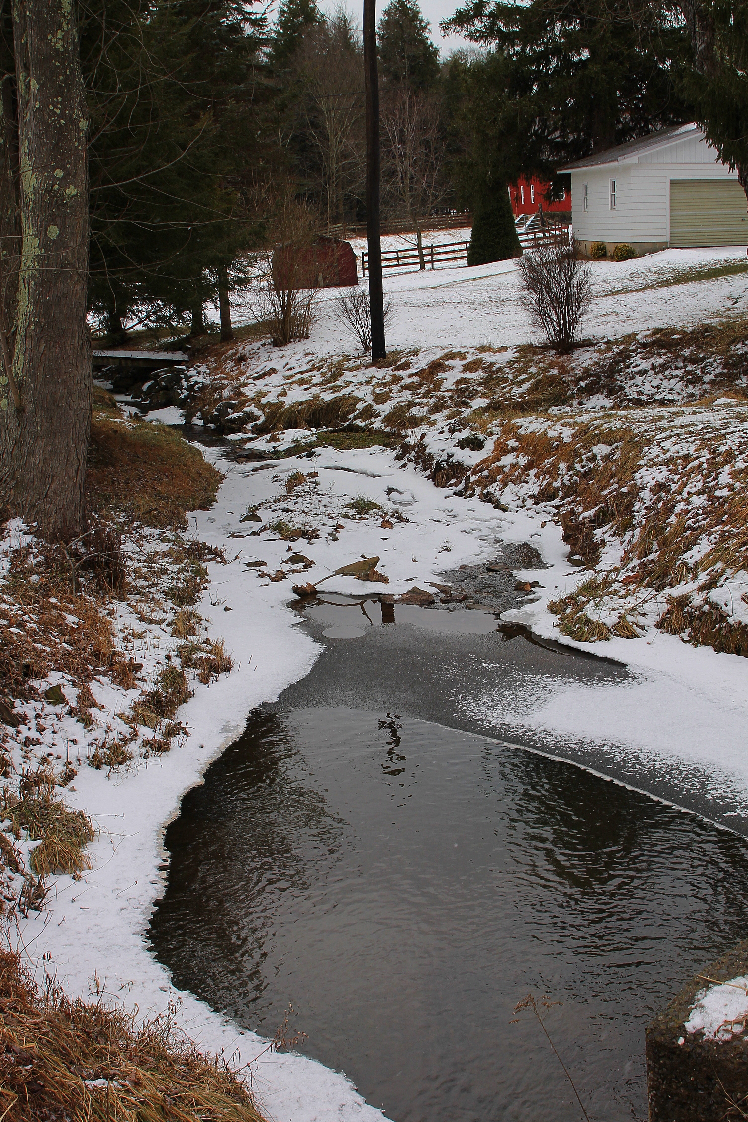 Kline Hollow Run from State Route 4032